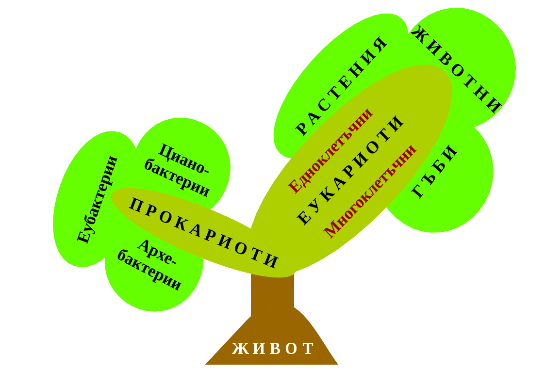 Scheme of the main taxonomy groups (so called "tree of life") in Bulgarian language.